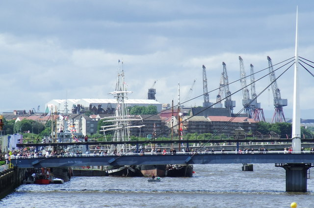 Bells Bridge Bells Bridge is a pedestrian swing bridge which opened in 1988 in conjunction with the Glasgow Garden Festival, the site of which is now occupied by the Glasgow Science Centre, BBC and STV amongst others. The ships in the picture are taking part in the 2007 River Festival. Govan shipyard sheds and cranes are prominent in the background.